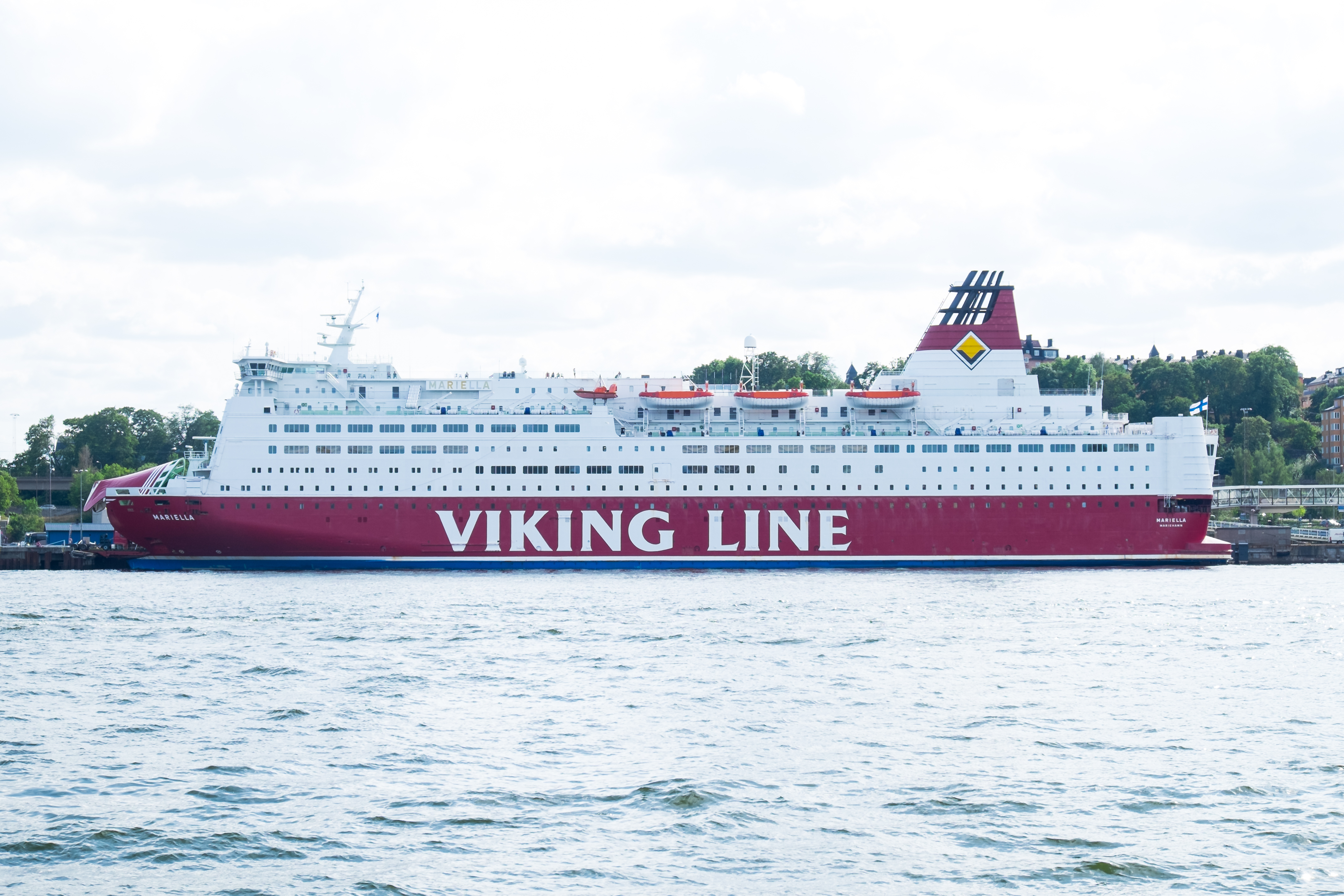 Mariella cruise ship.